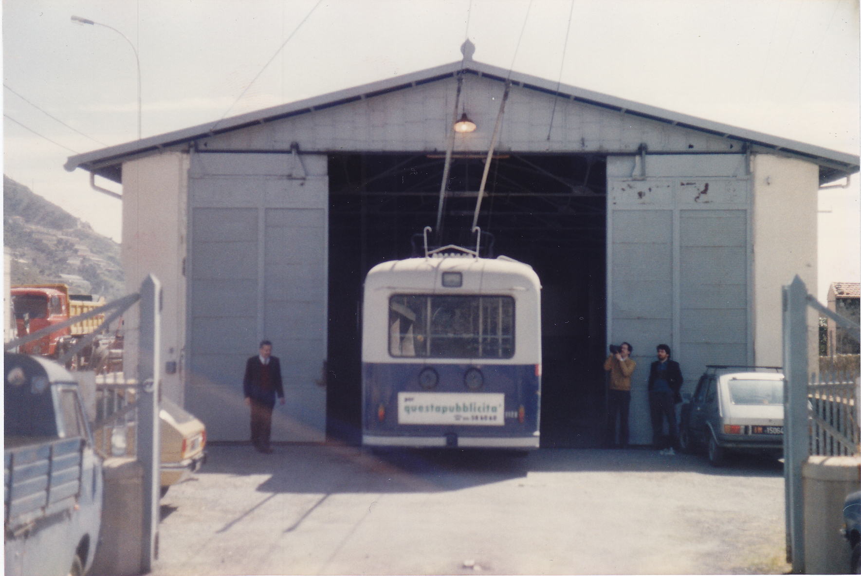 Former Taggia Trolleybus depot in 1988, with preserved trolleybus 29 (numbered 1129 during its last years in service)